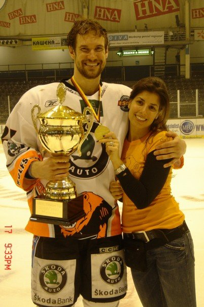 Michael Henrich playing for the Wolfsburg Grizzly Adams